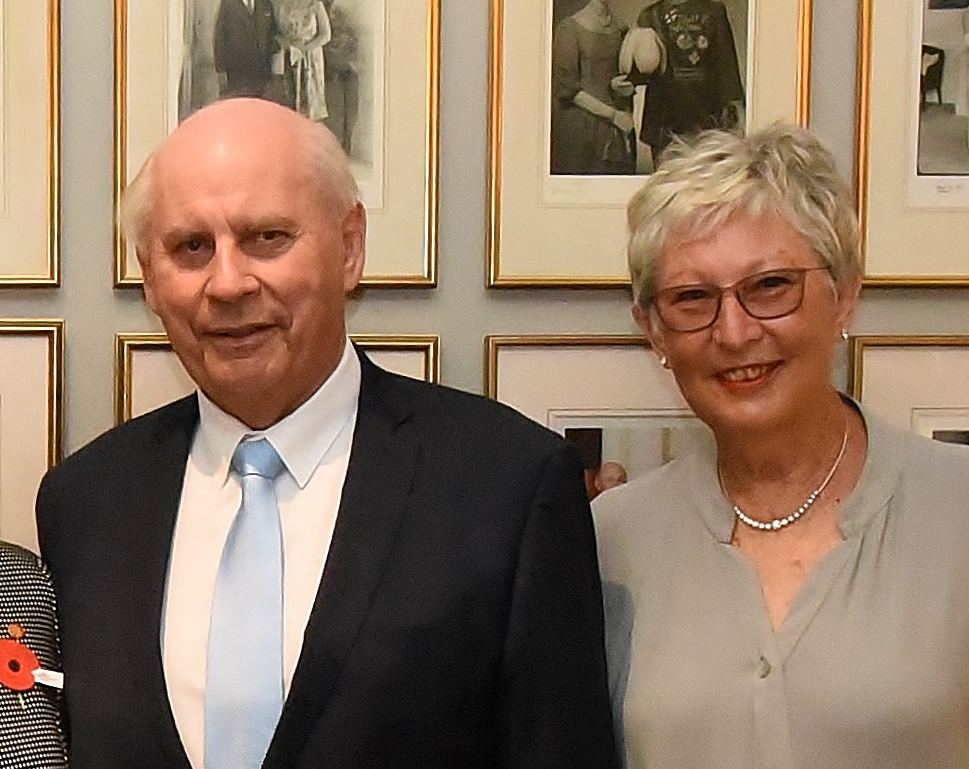 Sir David Gascoigne, Dame Patsy Reddy, Sir John Wells, and Sheryl, Lady Wells, at a morning tea hosted by Reddy on 21 April 2017 at Government House, Auckland, to celebrate the opening of the 2017 World Masters Games